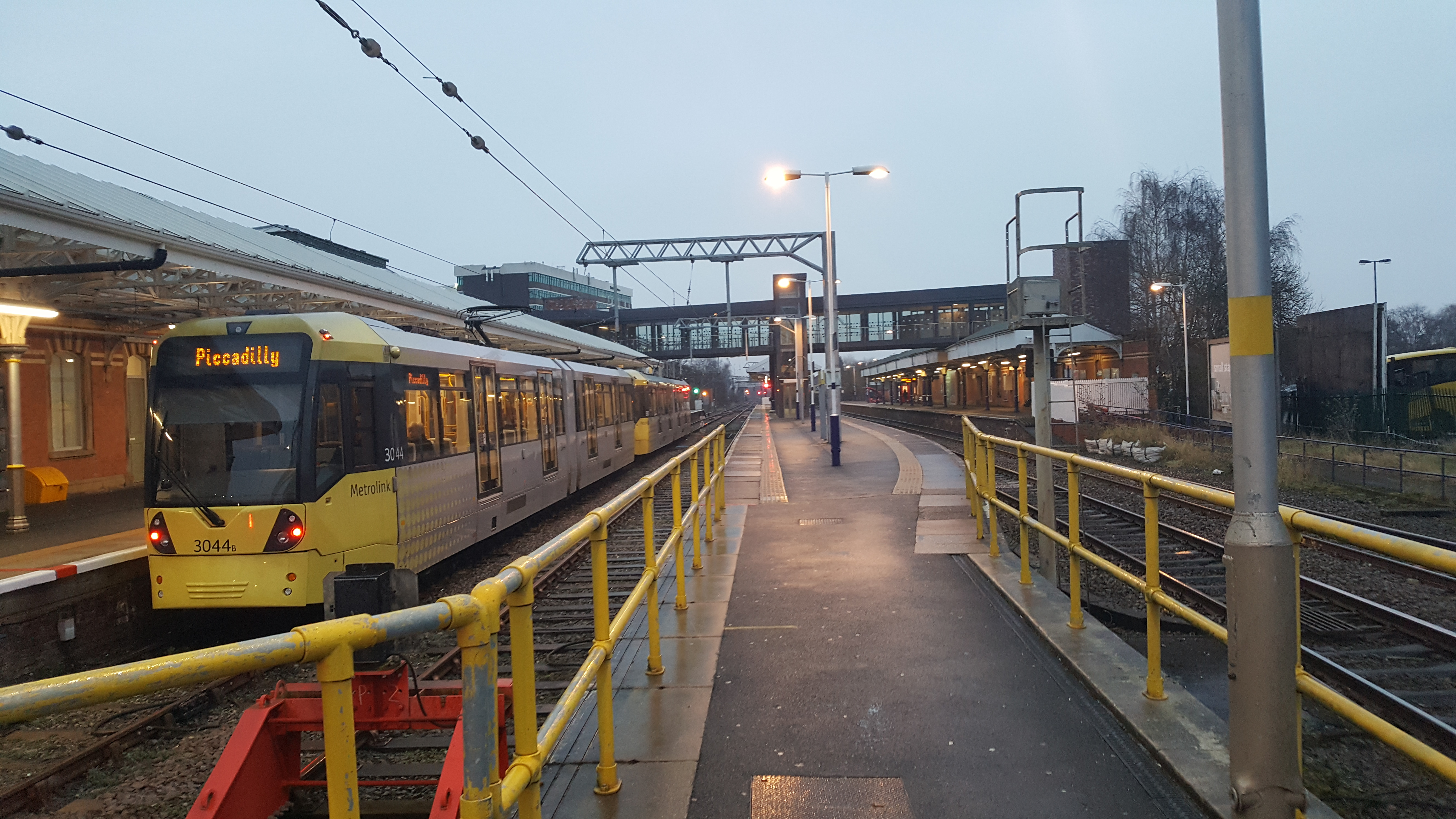 A tram at Altrincham interchange.